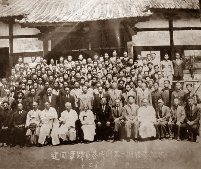 National Action Members Training Center